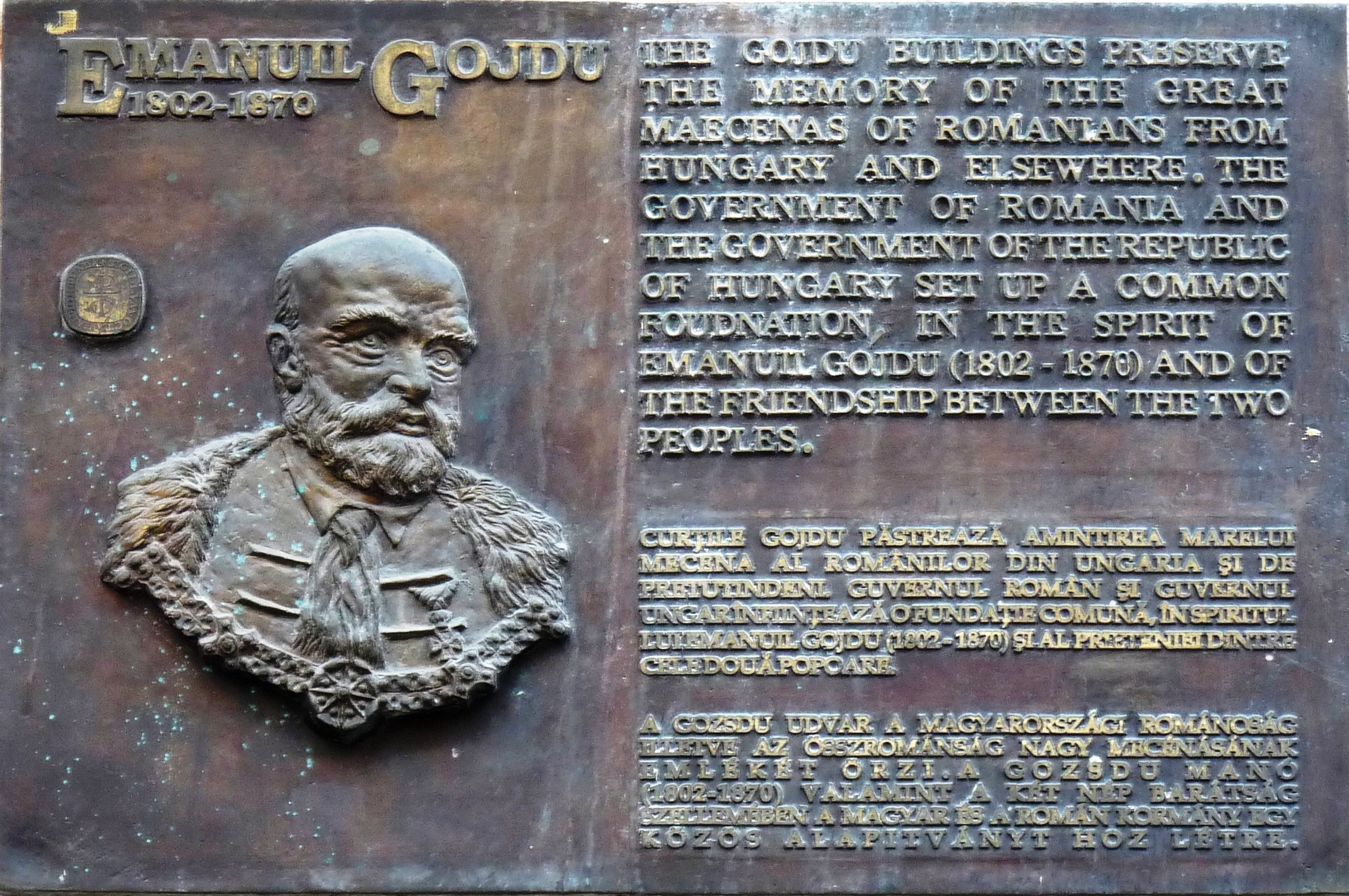 Commemorative plaque to Mr. Emanoil Gojdu (1802-1870) Romanian lawyer, lord-lieutenant and maecenas, on the wall of an edifice built by the fondation bearing his name. It was unveiled on April 25, 2004. (Budapest, District VII, Király Street Nr 13).